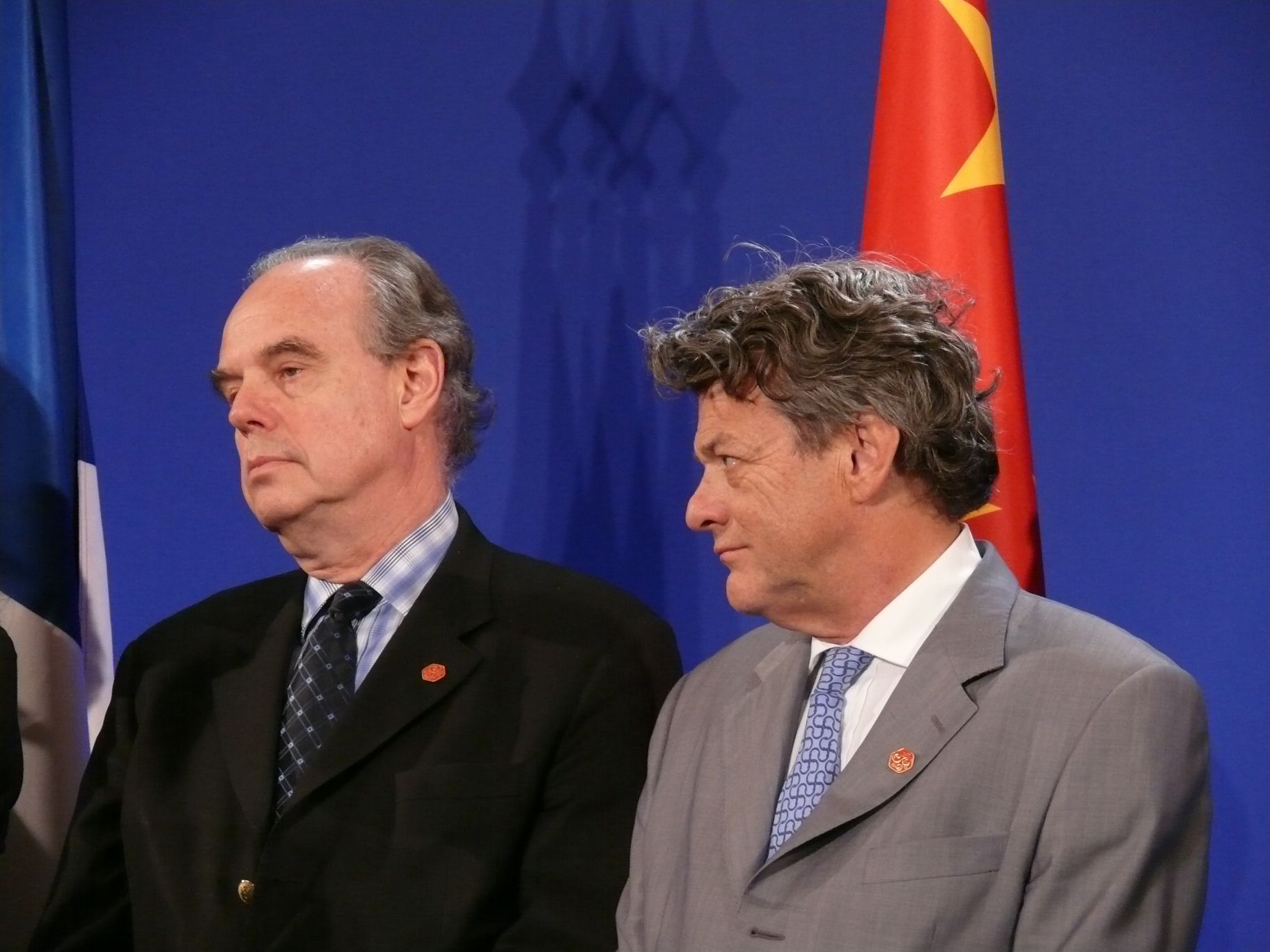 Meeting by President Nicolas Sarkozy on April 30th 2010 at Hyatt on the Bund Hotel in Shanghai (China)